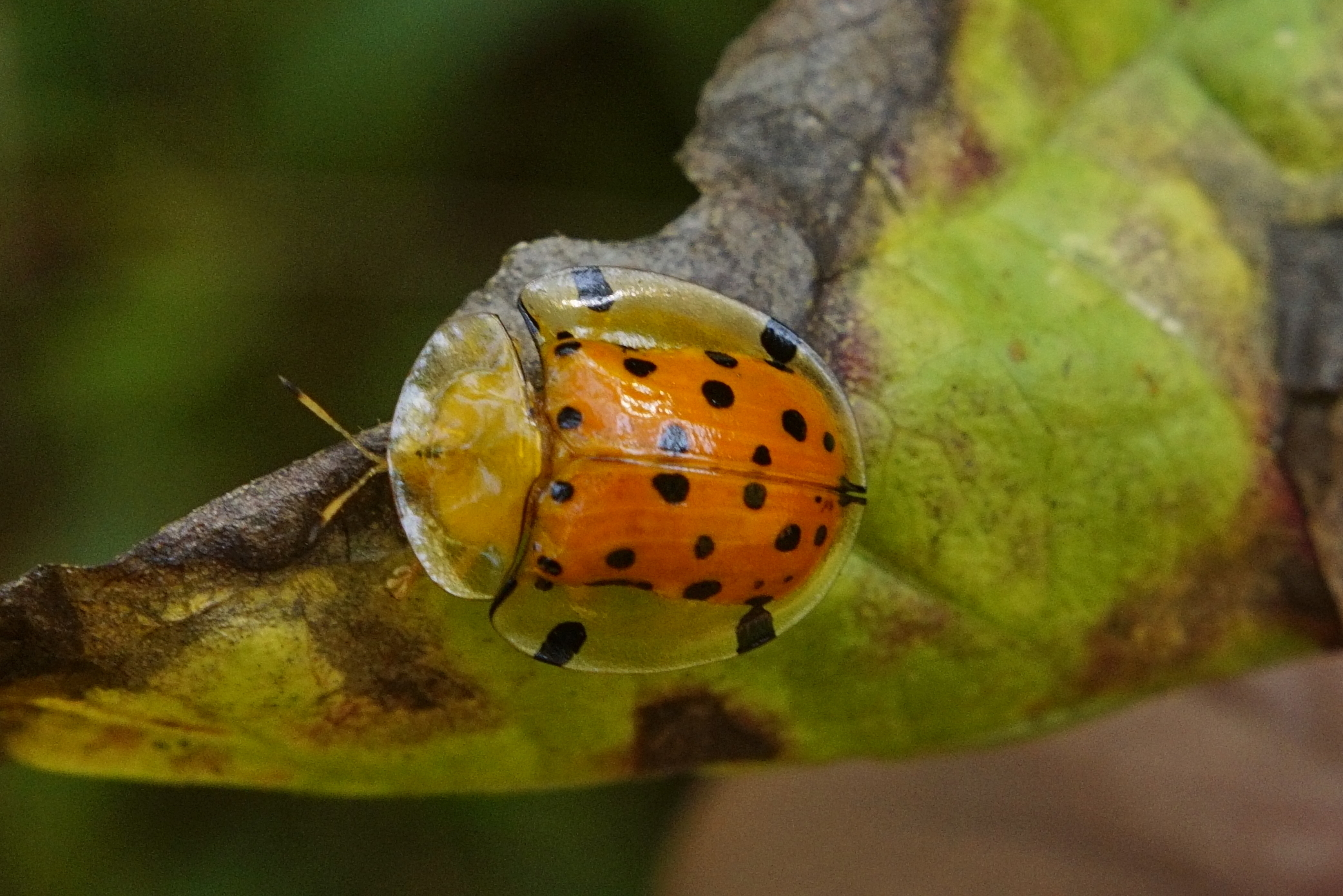 Chemancheri